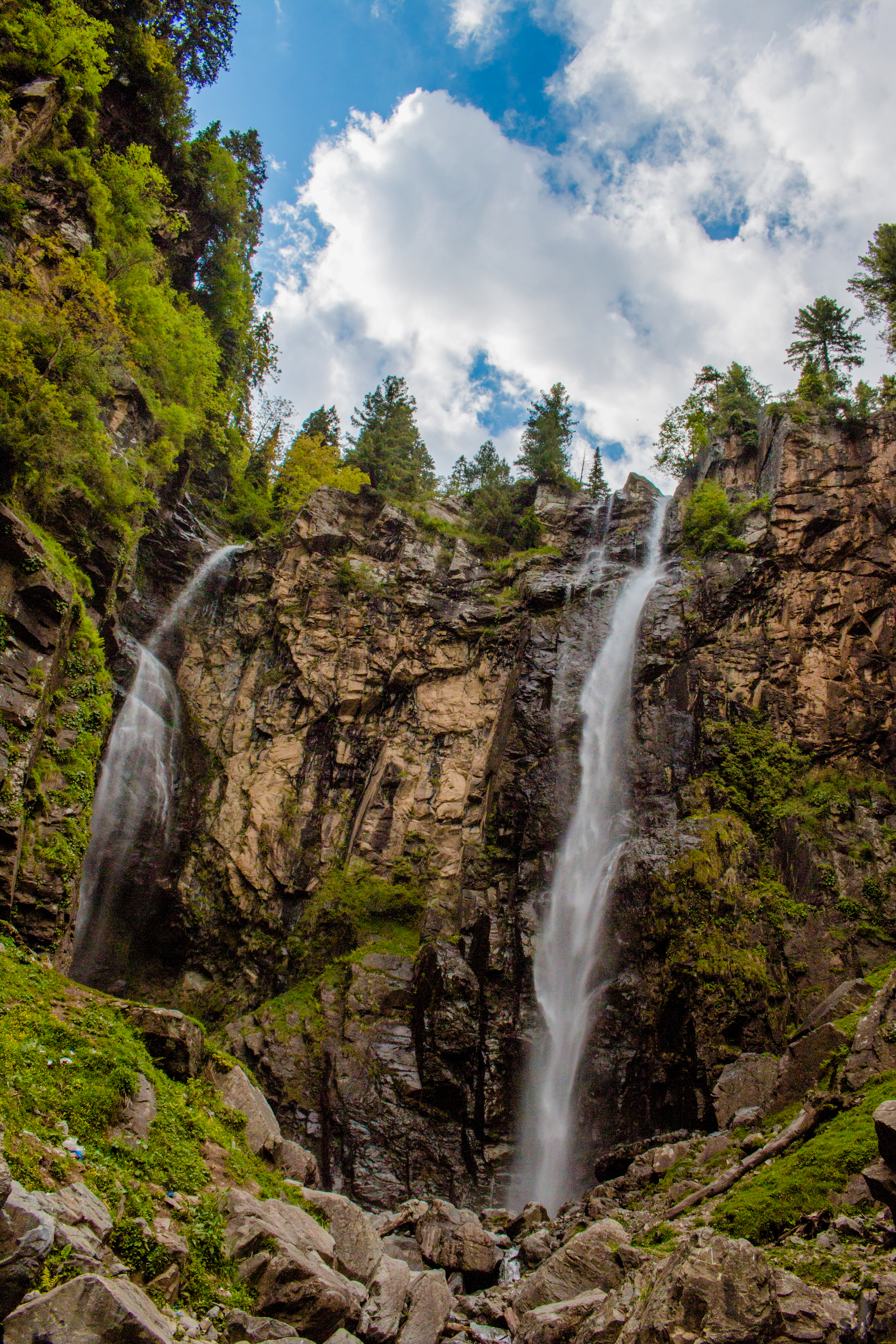 JAROGO WATERFALL One of Higest Waterfall of Pakistan, The Water Falling down the waterfall covered almost 120 meters area.